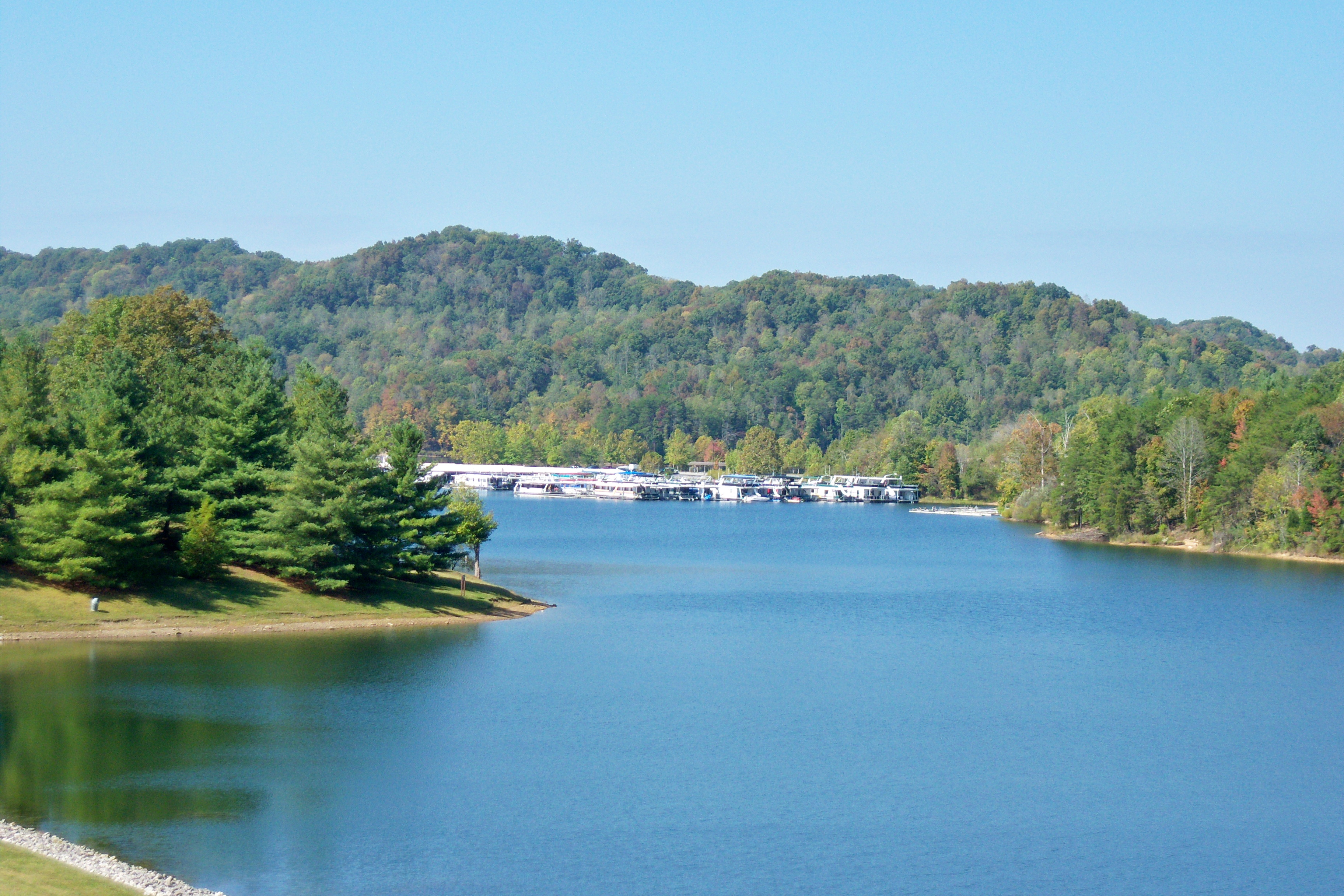 View of Paintsville Lake from the dam.